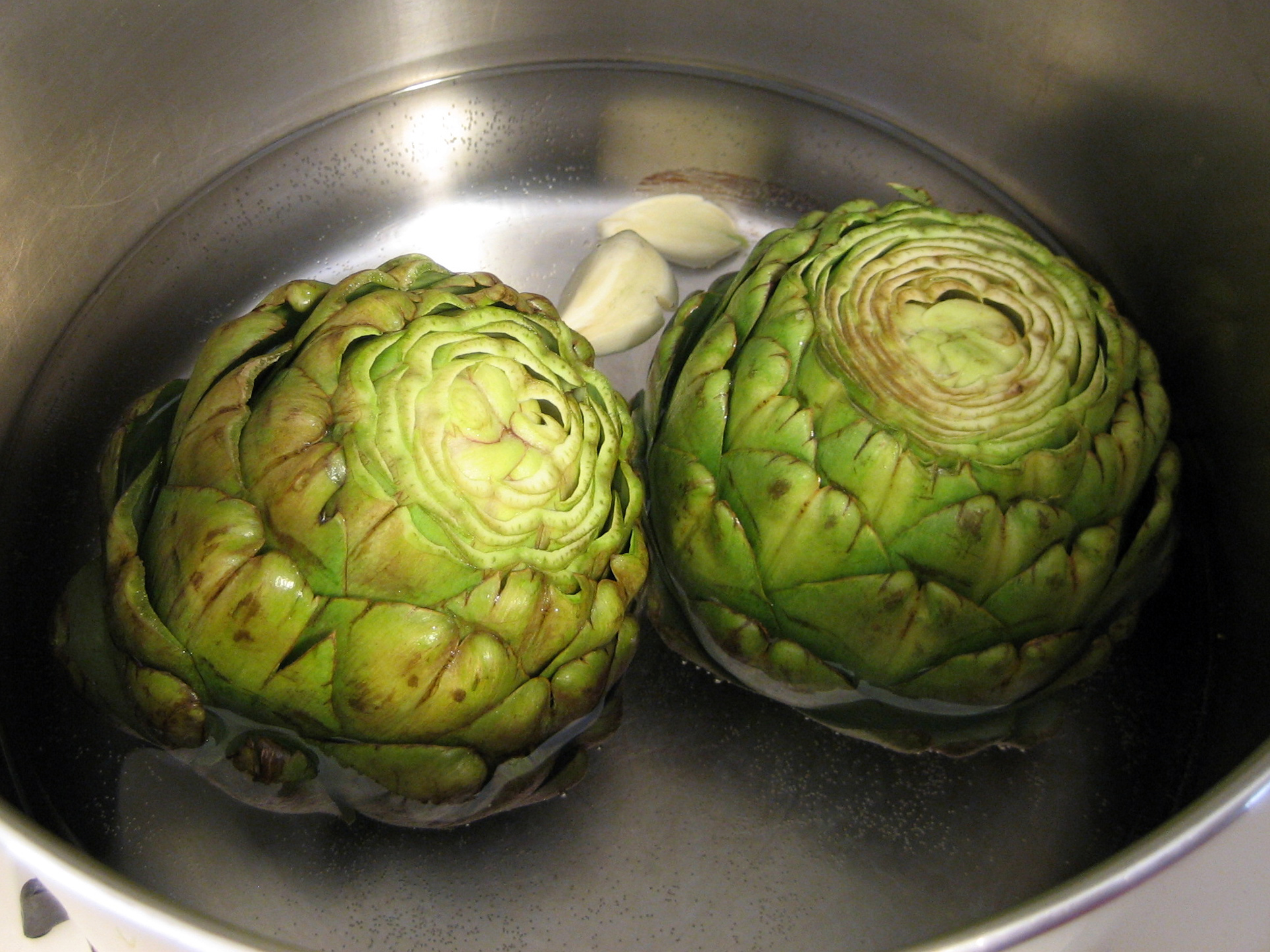 Globe artichokes being cooked with whole garlic cloves